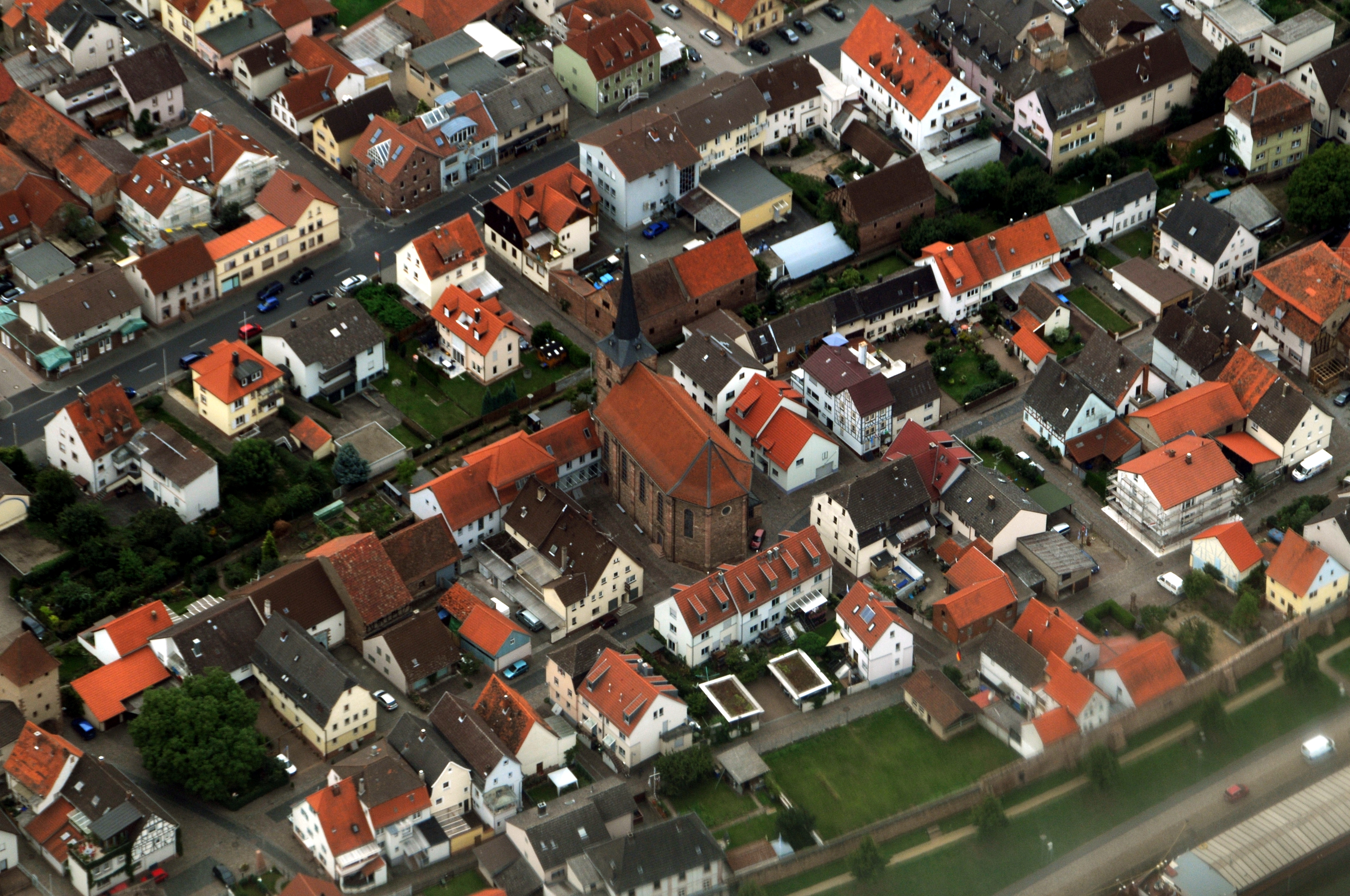 Wörth am Main, Bavaria, Germany, aerial photograph